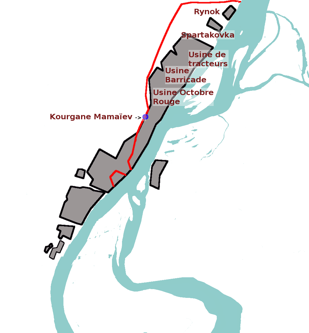 Battle of Stalingrad - German advance - 1942-09-30